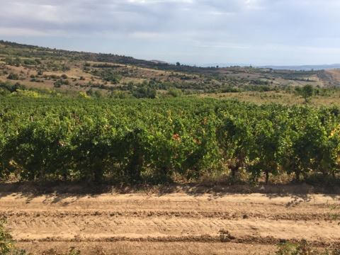 Vineyards in Skopje region